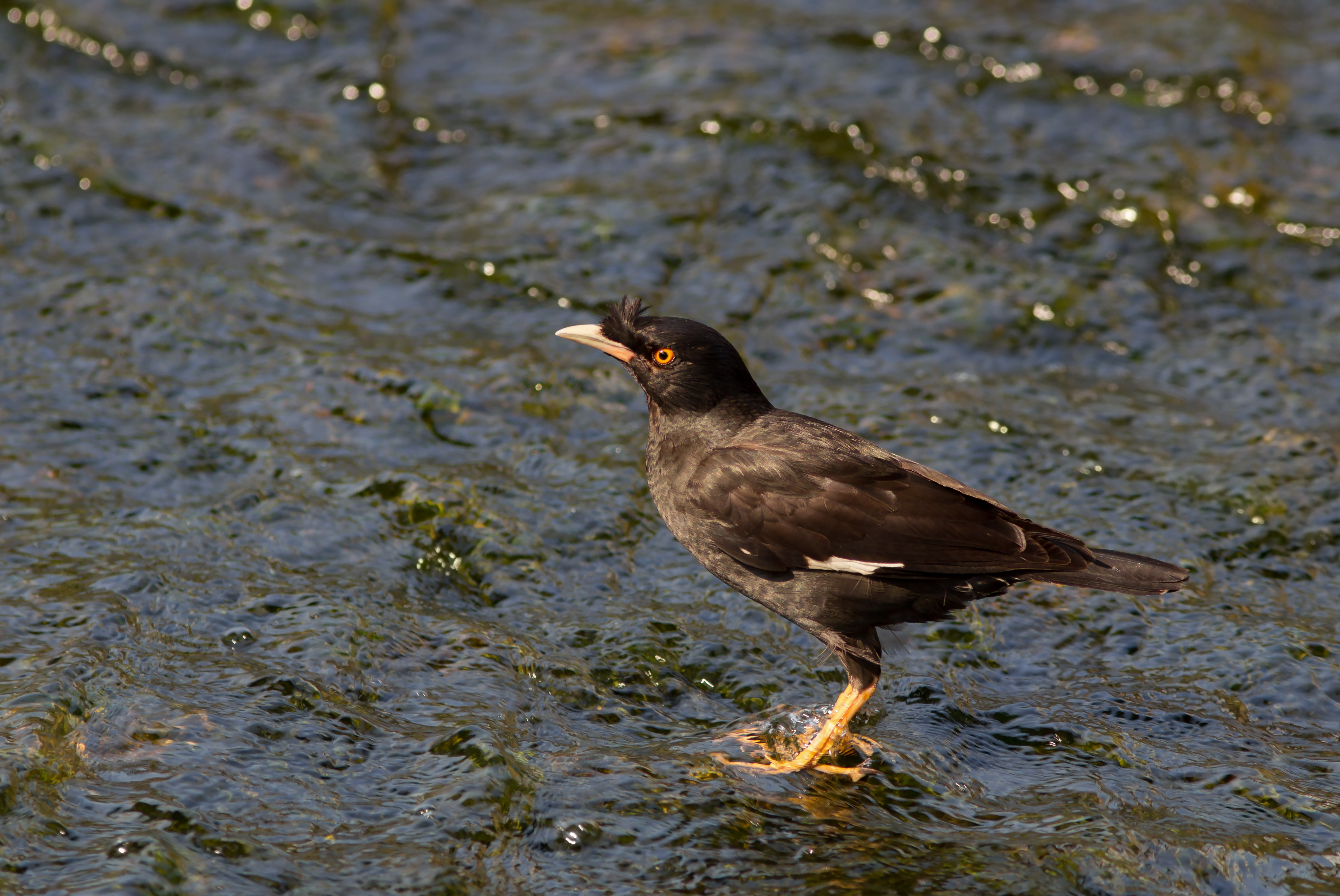 Crested myna, taken at Osaka.